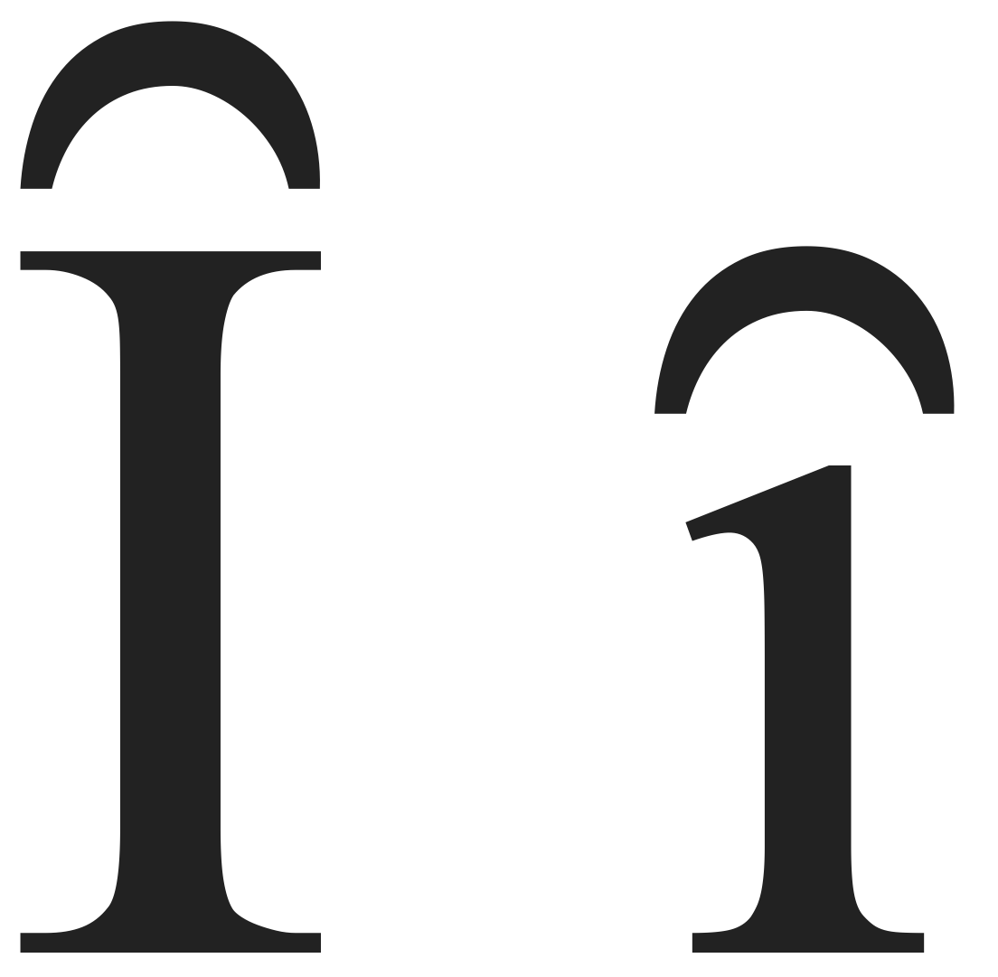 I with flipped breve